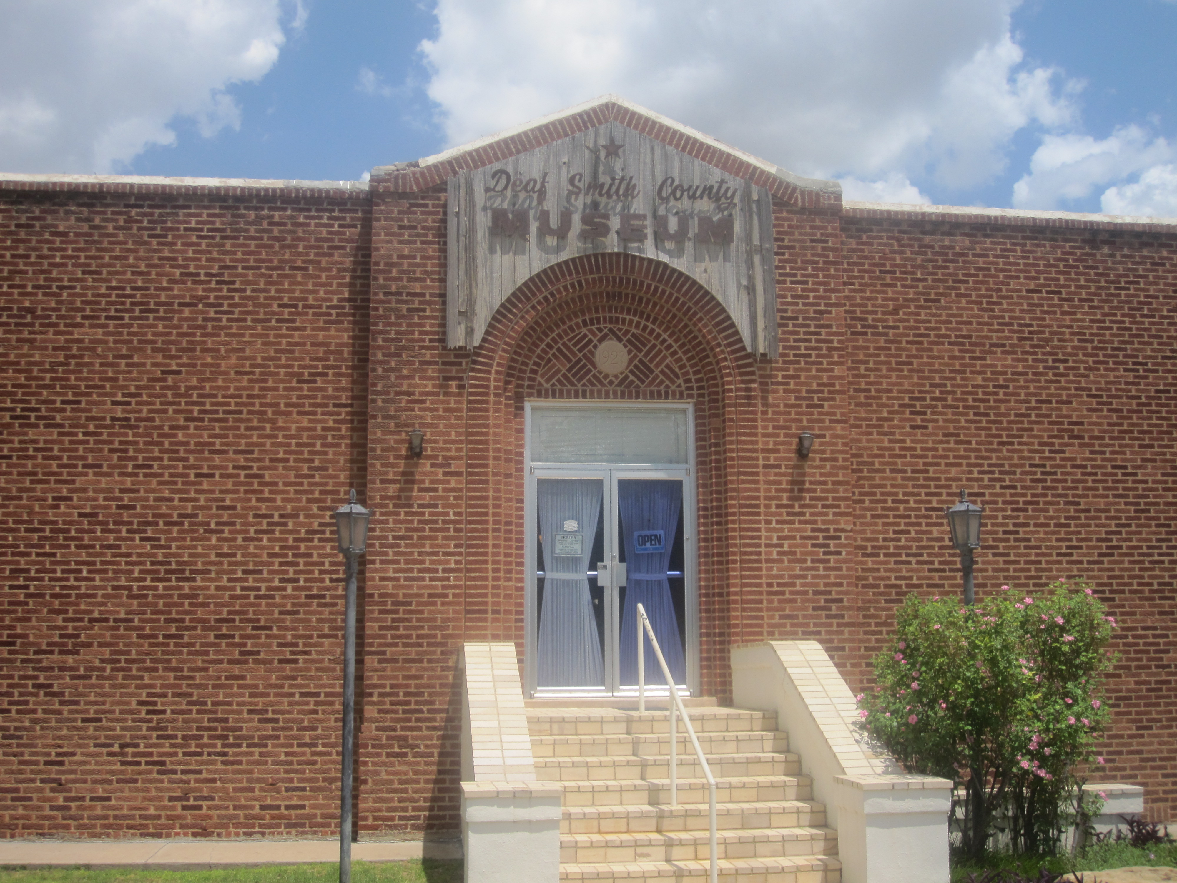 I took photo with Canon camera in Hereford, TX.